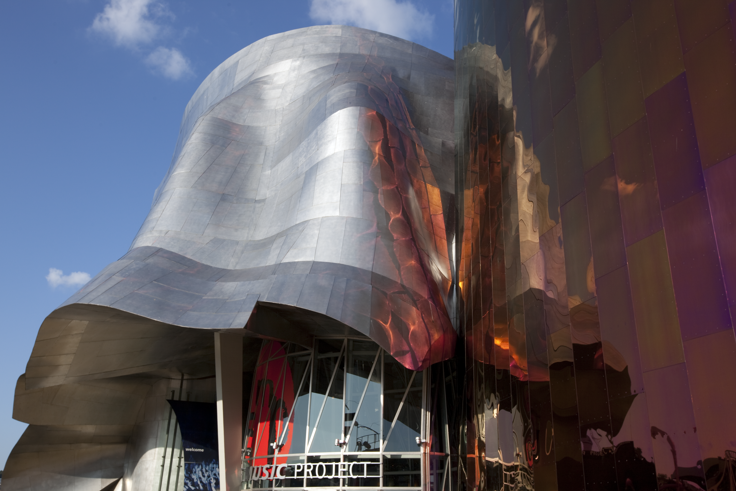 Seattle Music Project by architect Frank O. Gehry, Seattle, Washington